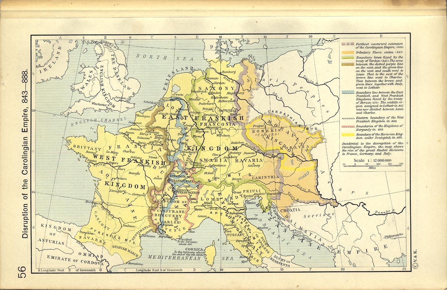 Disruption of the Carolingian Empire, 843-888